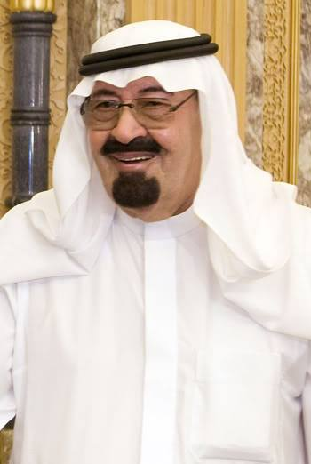 Obama meets King Abdullah of Saudi Arabia, July 2014